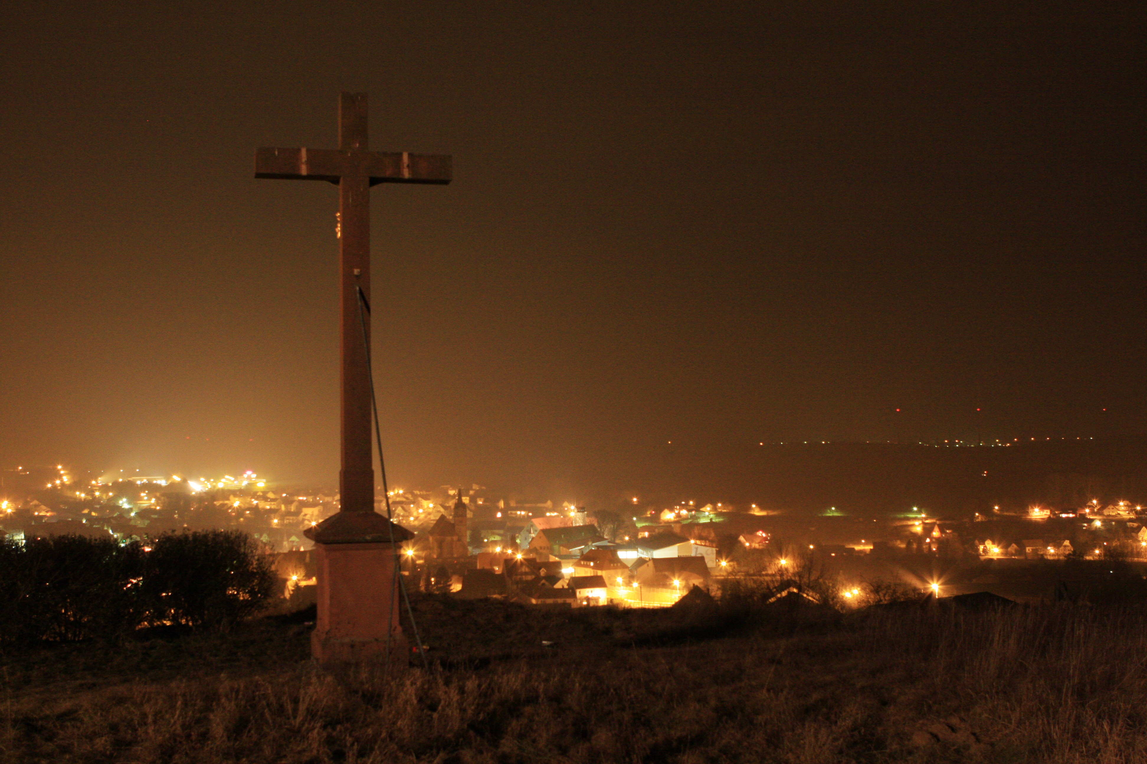 View at night on Külsheim, Baden-Württemberg, Germany from the Kattenberg.